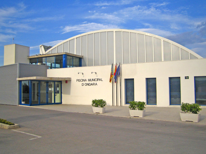 Photo of municipal swimming pool of Ondara, county Marina Alta, Region of Valencia, Spain.